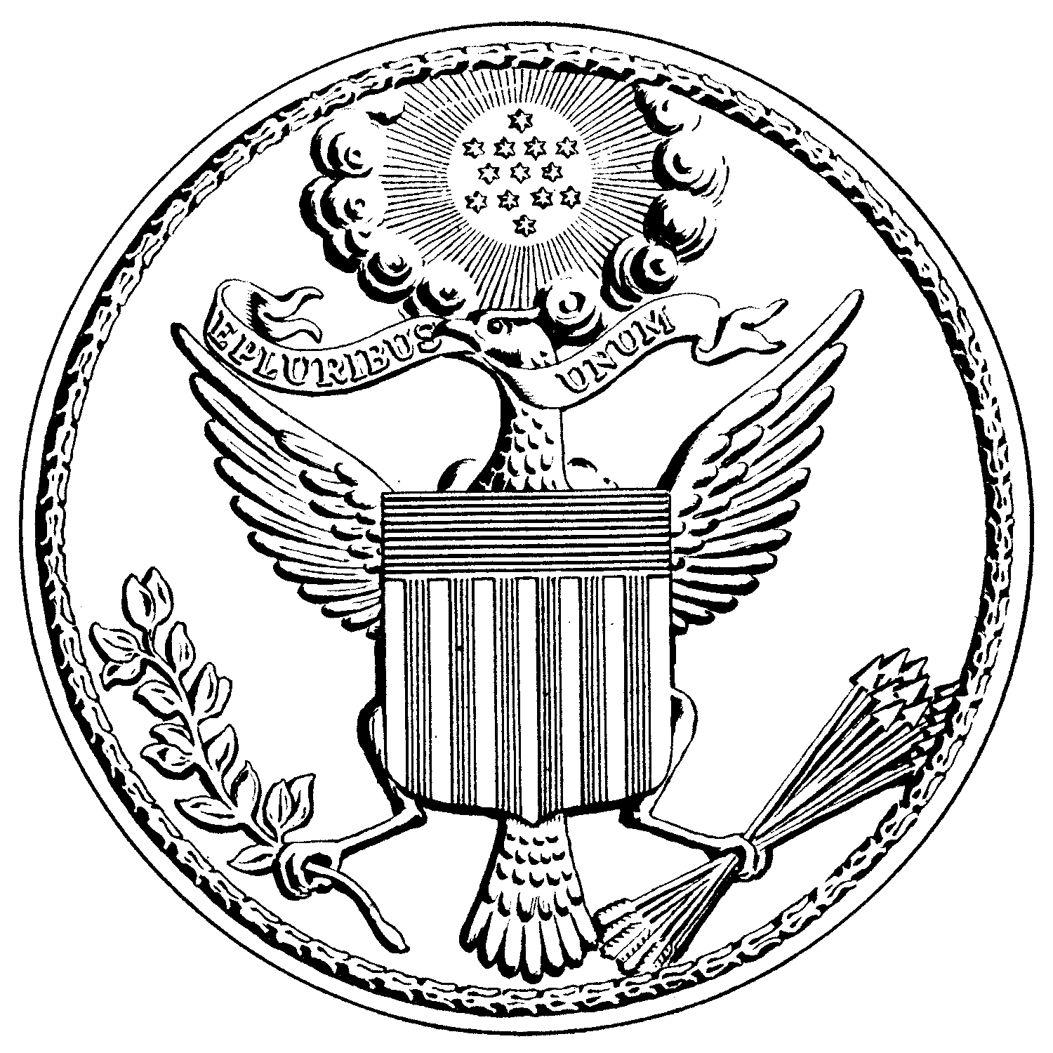 Drawing of the imprint made by the 1782 (original) die of the Great Seal of the United States.